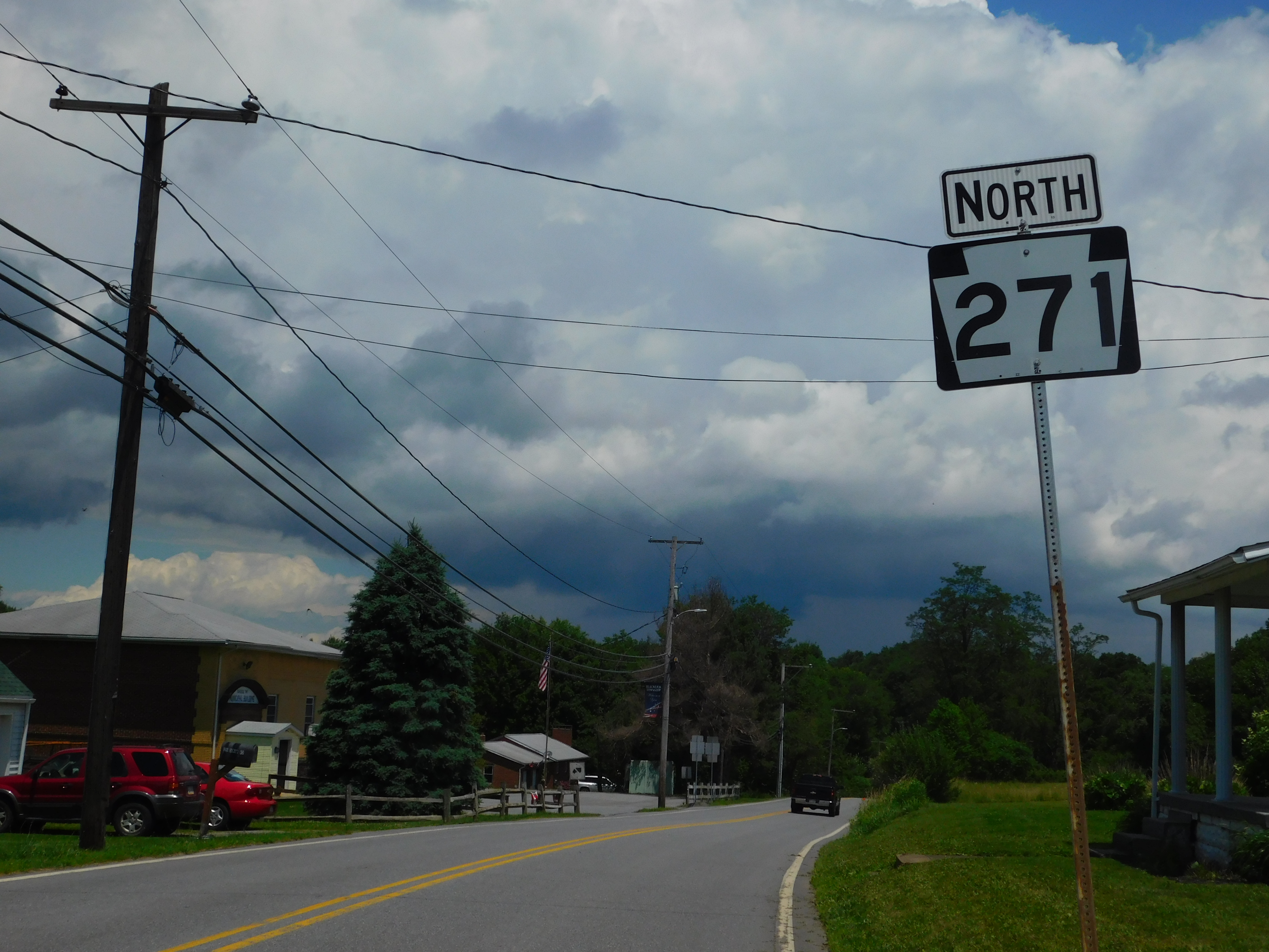 Route 271 in Belsano, Pennsylvania.